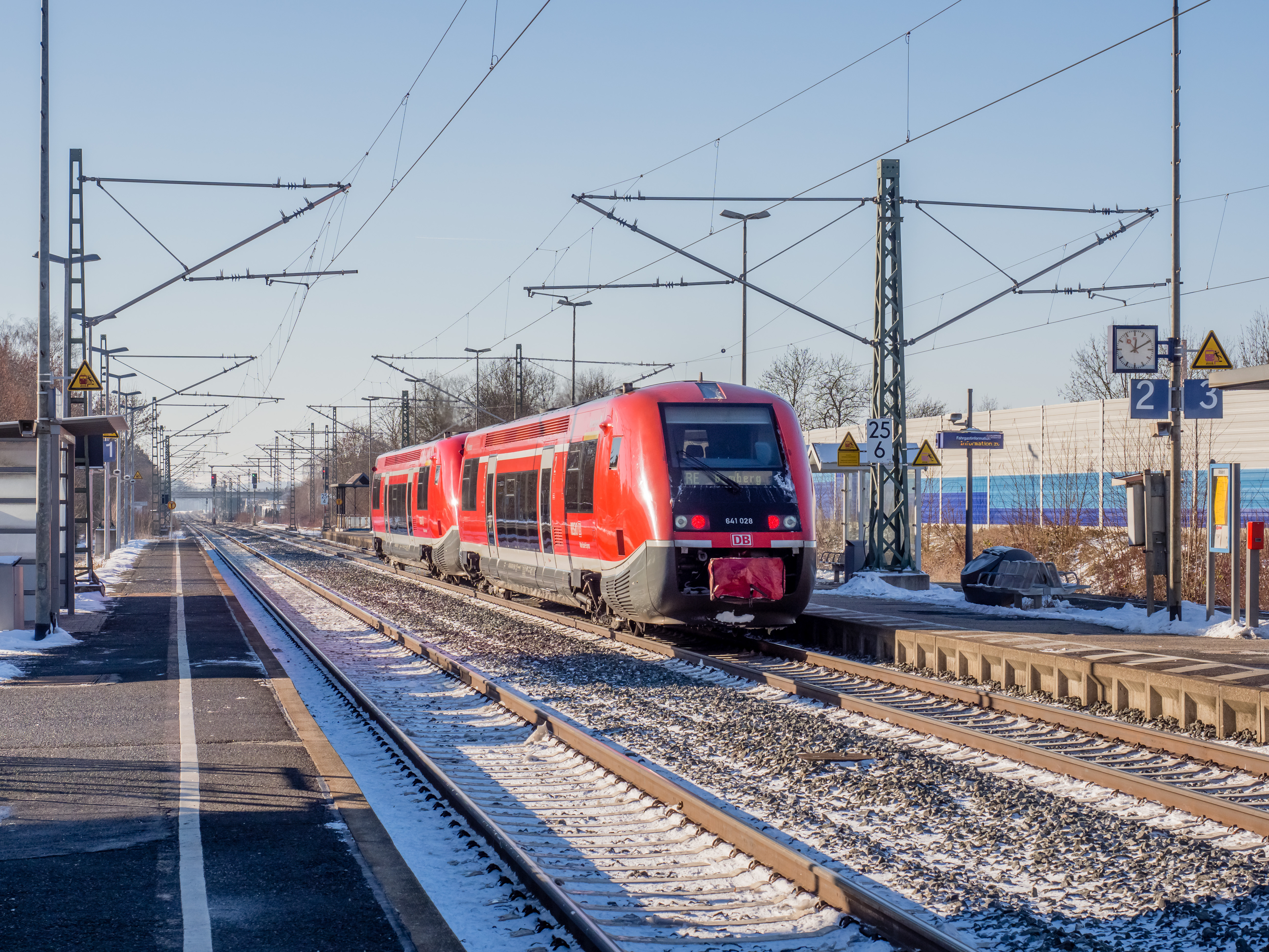 German Railways Class 641 railcar in Bad Staffelstein